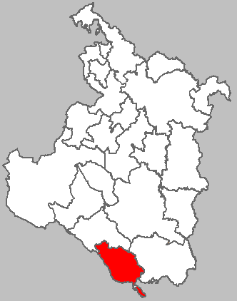 Location of Saborsko municipality inside Karlovac County